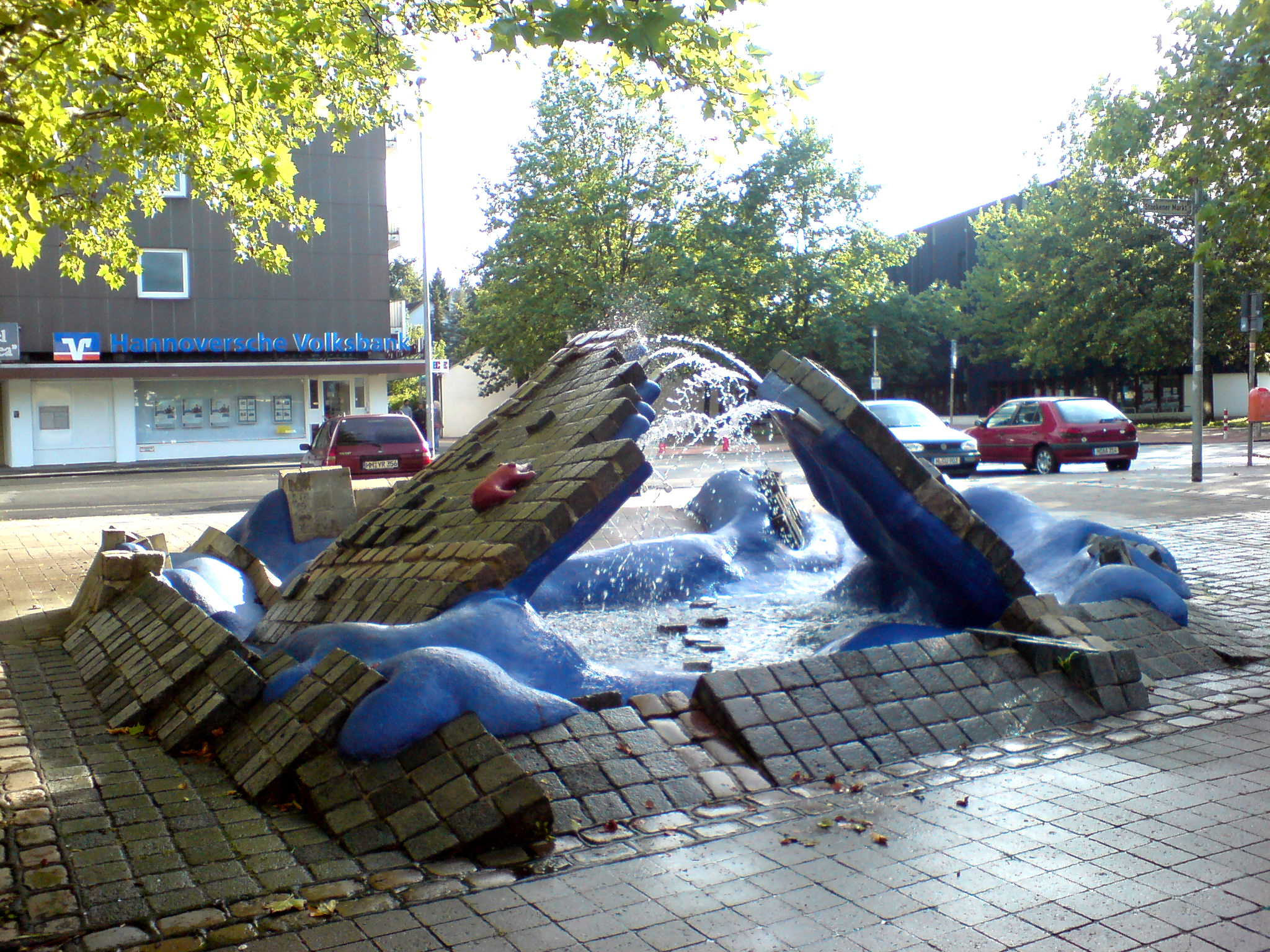 Ulrike Enders's spring on the Stöckener Markt in Hanover